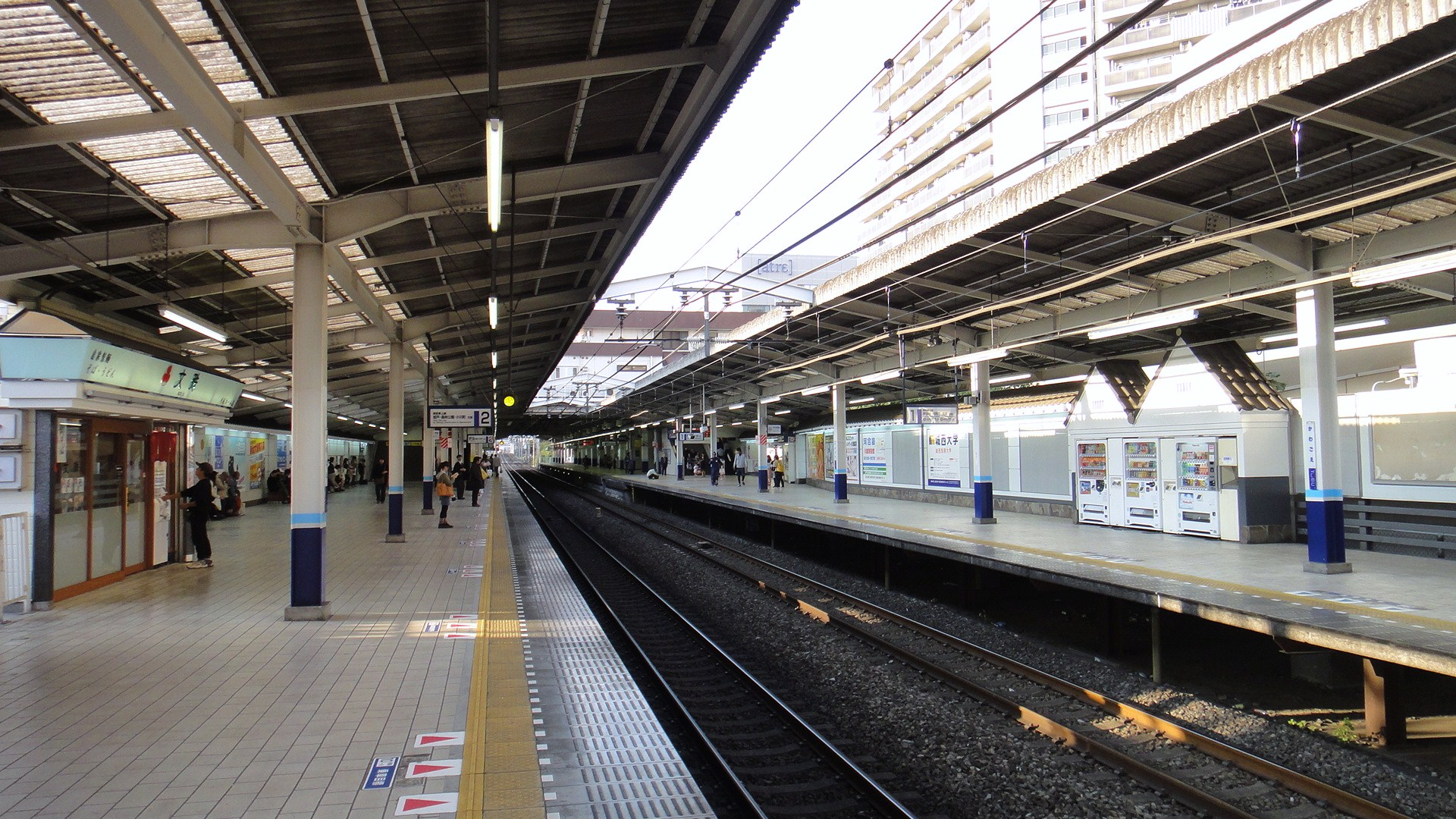 Platform 2 of Kawagoe Station on the Tobu Tojo Line, looking northward from the south end